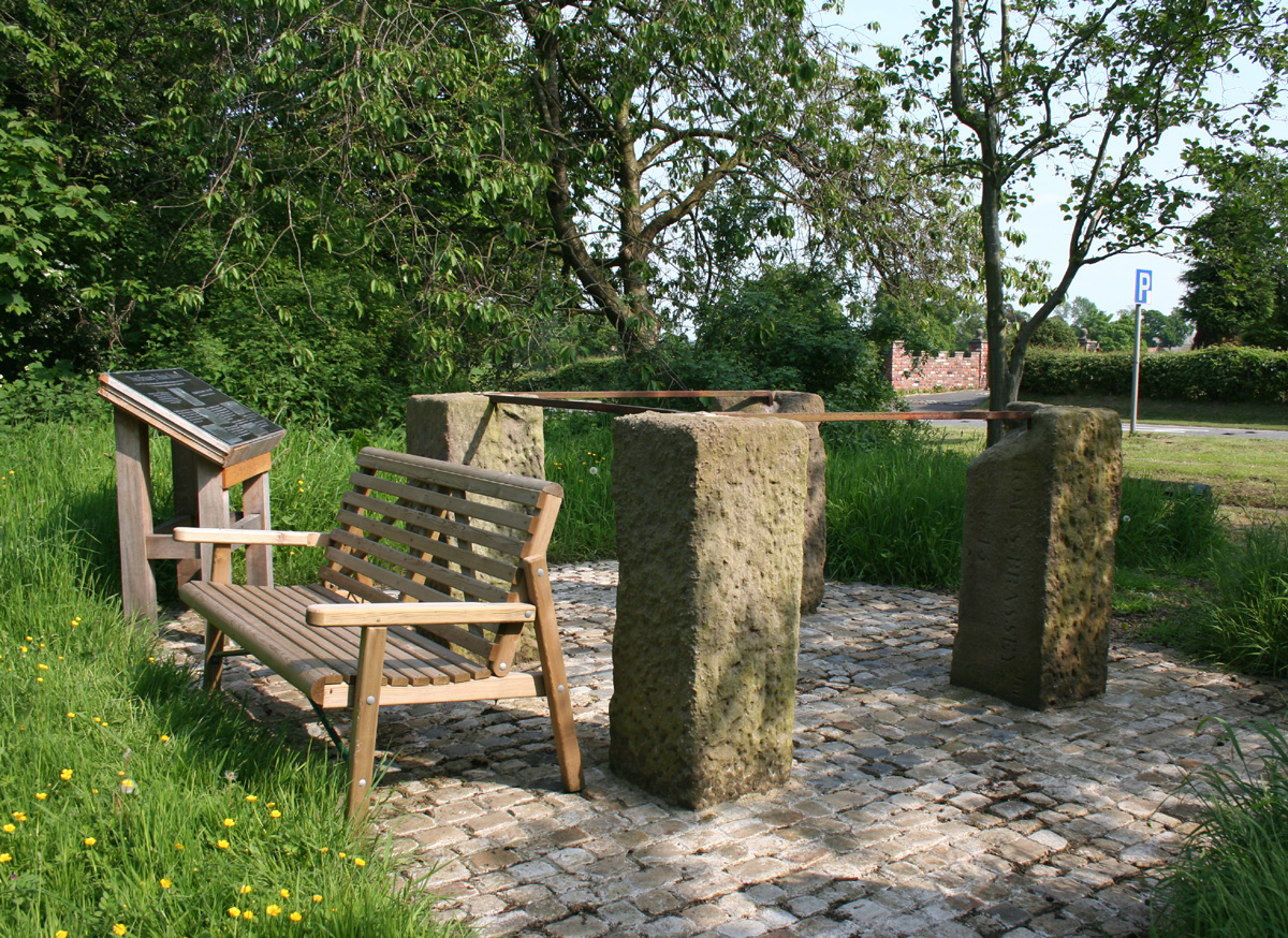 Brassey Tribute Stones, Bulkeley, Cheshire. Tribute to Thomas Brassey (1805-70)